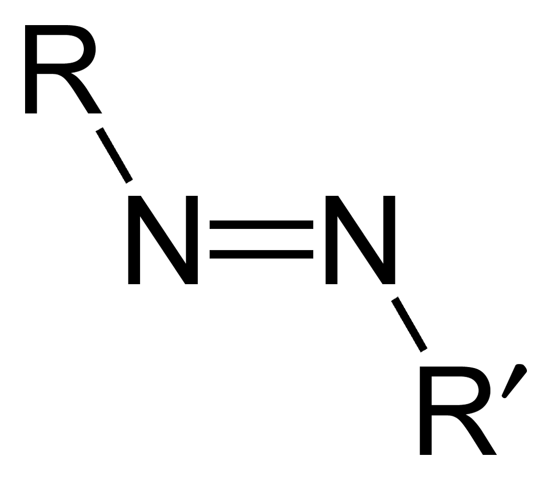 Structural formula of the azo group, R-N=N-R′. In this image, it is depicted as the trans isomer, but a cis isomer is also possible. The labels R and R′ typically represent organic substituents, such as the phenyl group. However, they can be defined in text accompanying the image if a different meaning is intended. For example, if R = R′ = H then then this image would represent diazene (diimide).